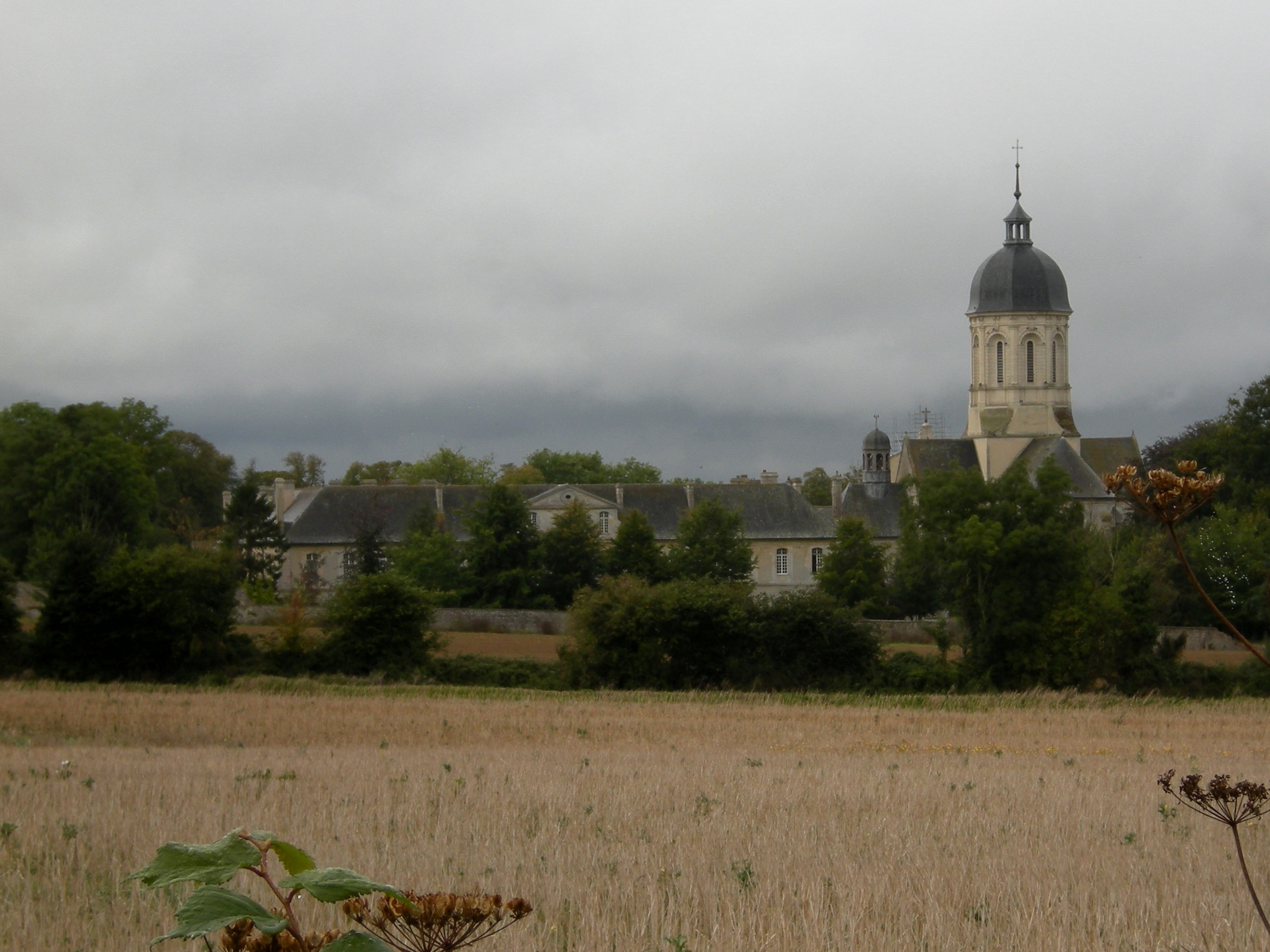 Mondaye Abbey in France.